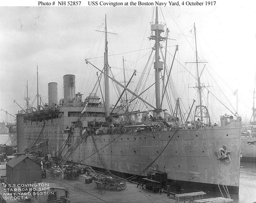 USS Covington (ID-1409) at the Boston Navy Yard, Massachusetts